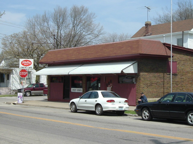 Check's Cafe in Schitzelburg LOUKY